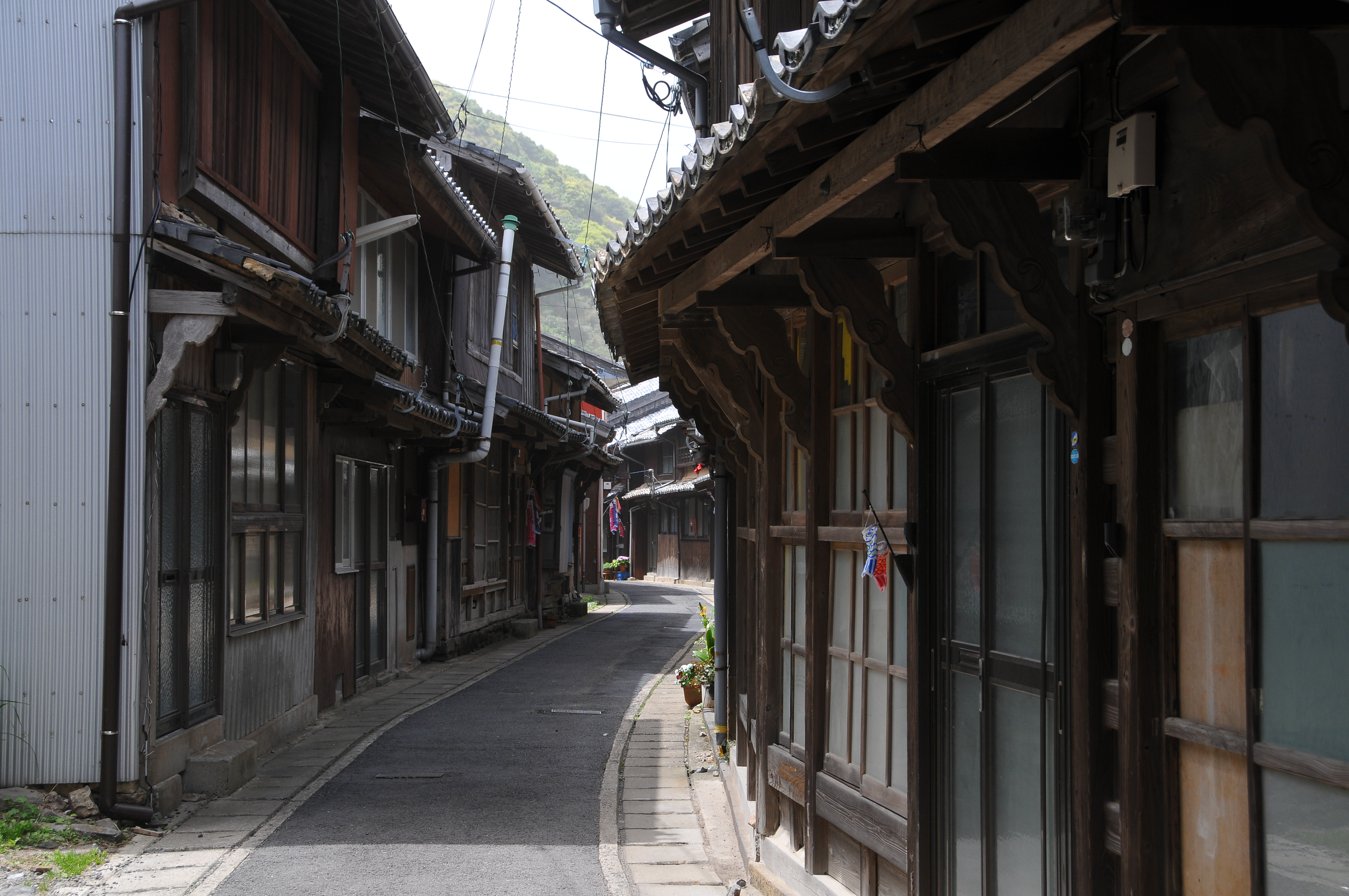 konoura hirado nagasaki japan